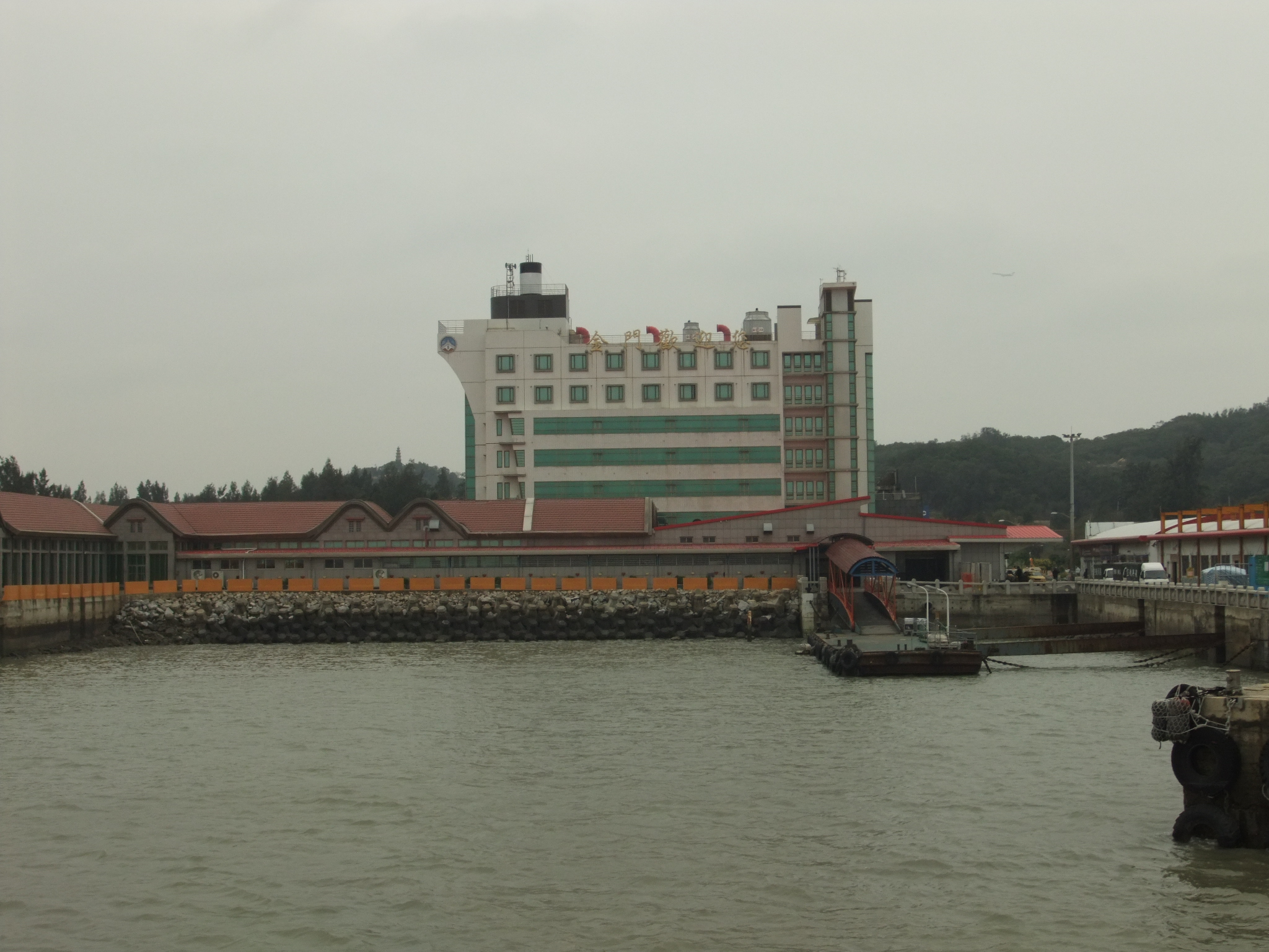 Shuitou Wharf is located near the southwestern extremity of Kinmen Island, R.O.C. It is Kinmen's only wharf for ferries connecting it with the Mainland China (Dongdu and Wutong Terminals in Xiamen, and Shijing Terminal near Quanzhou